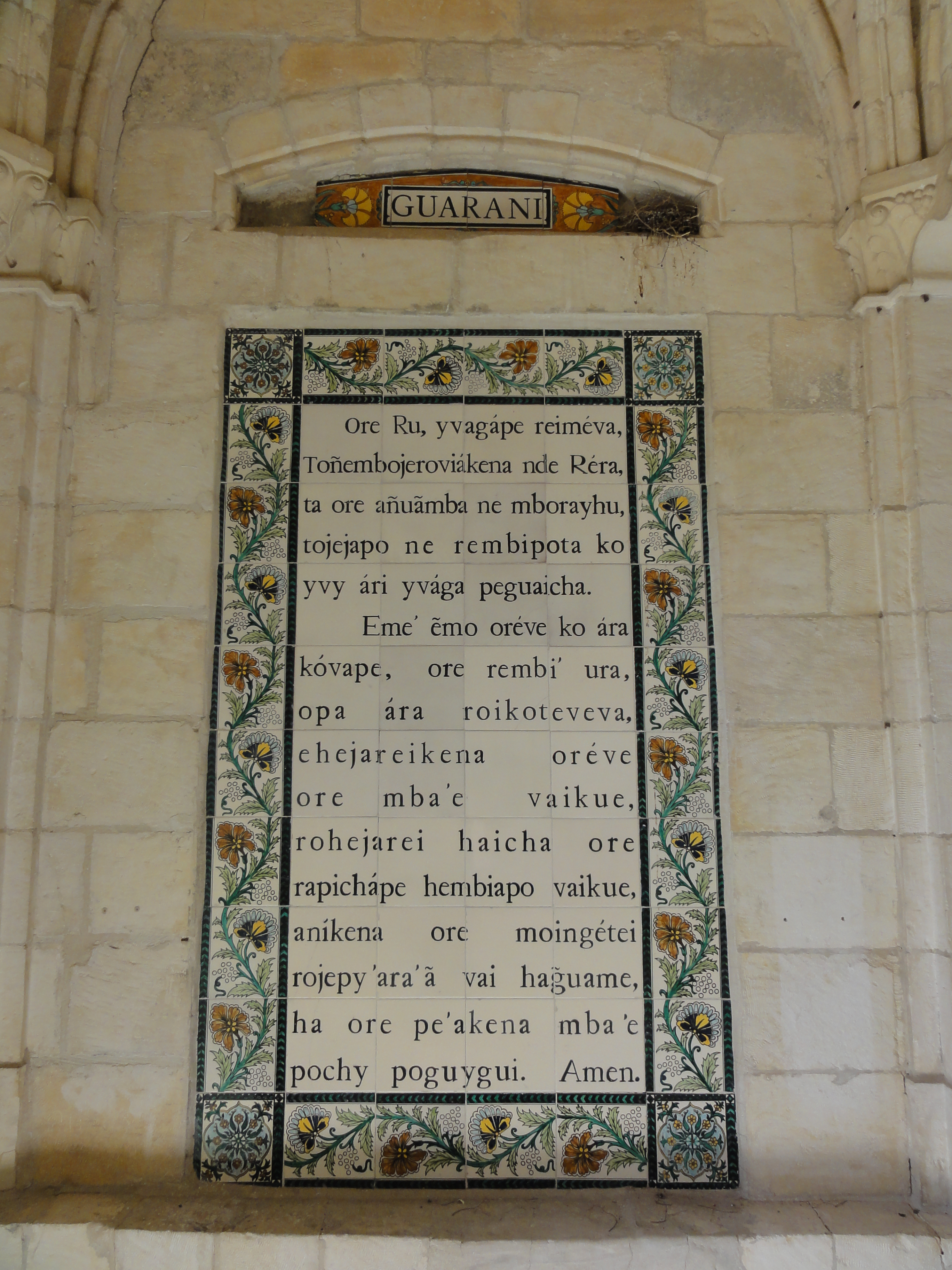 Church of the Pater Noster, Israel. Info GPS data may be inaccurate. EXIF data regarding date and time may be inaccurate.